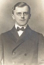 Ivan Perne (1899 -1933), slovenian diplomat in Switzrland